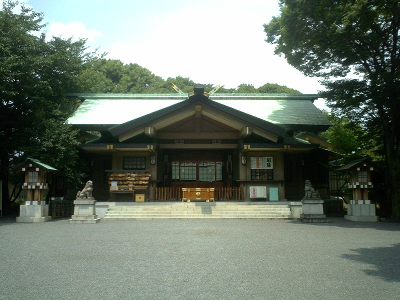 The Togo Shrine in Harajuku, Tokyo, Japan.